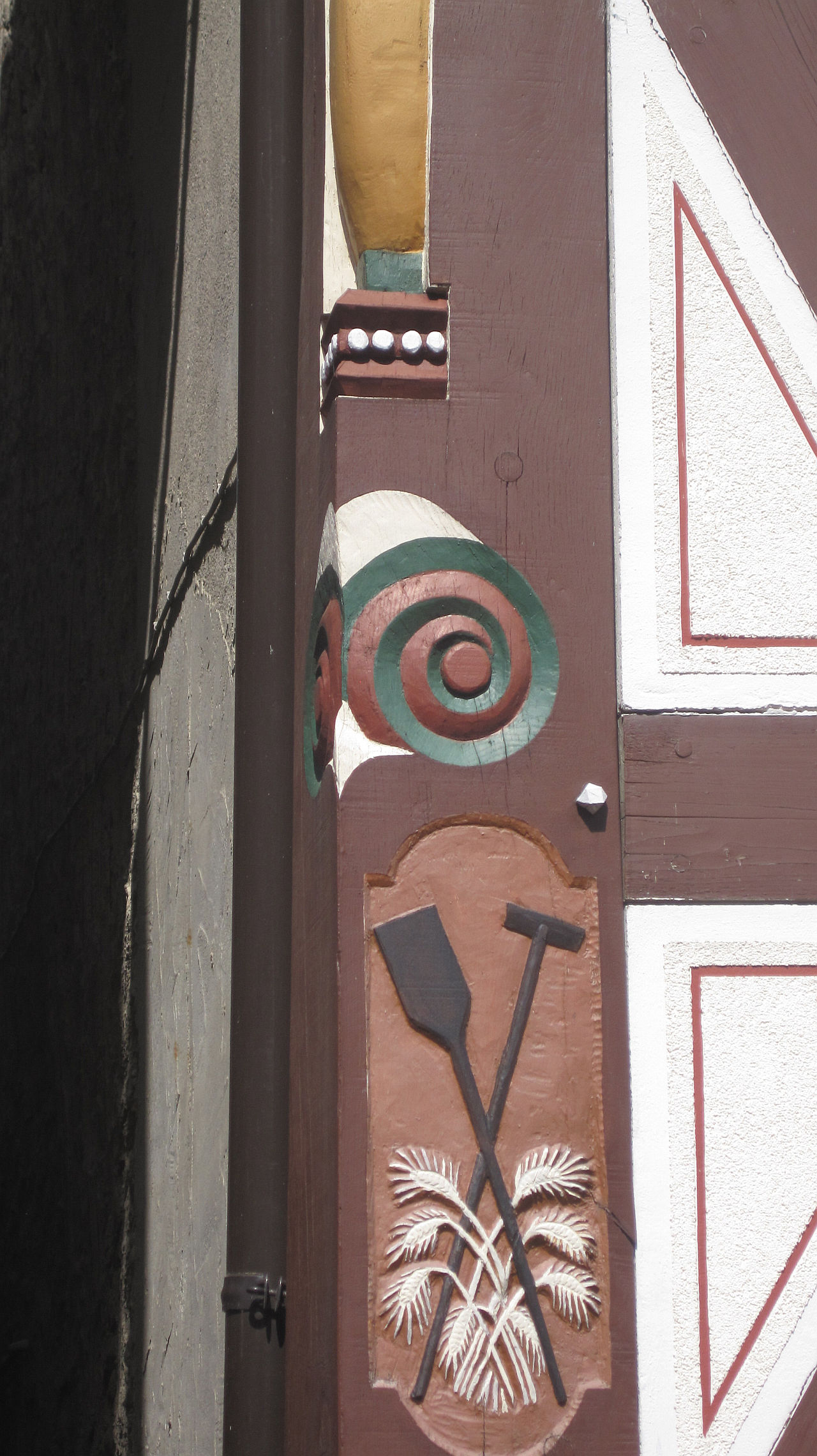 timber framing decoration for a baker craftman in Biedenkopf, Hesse